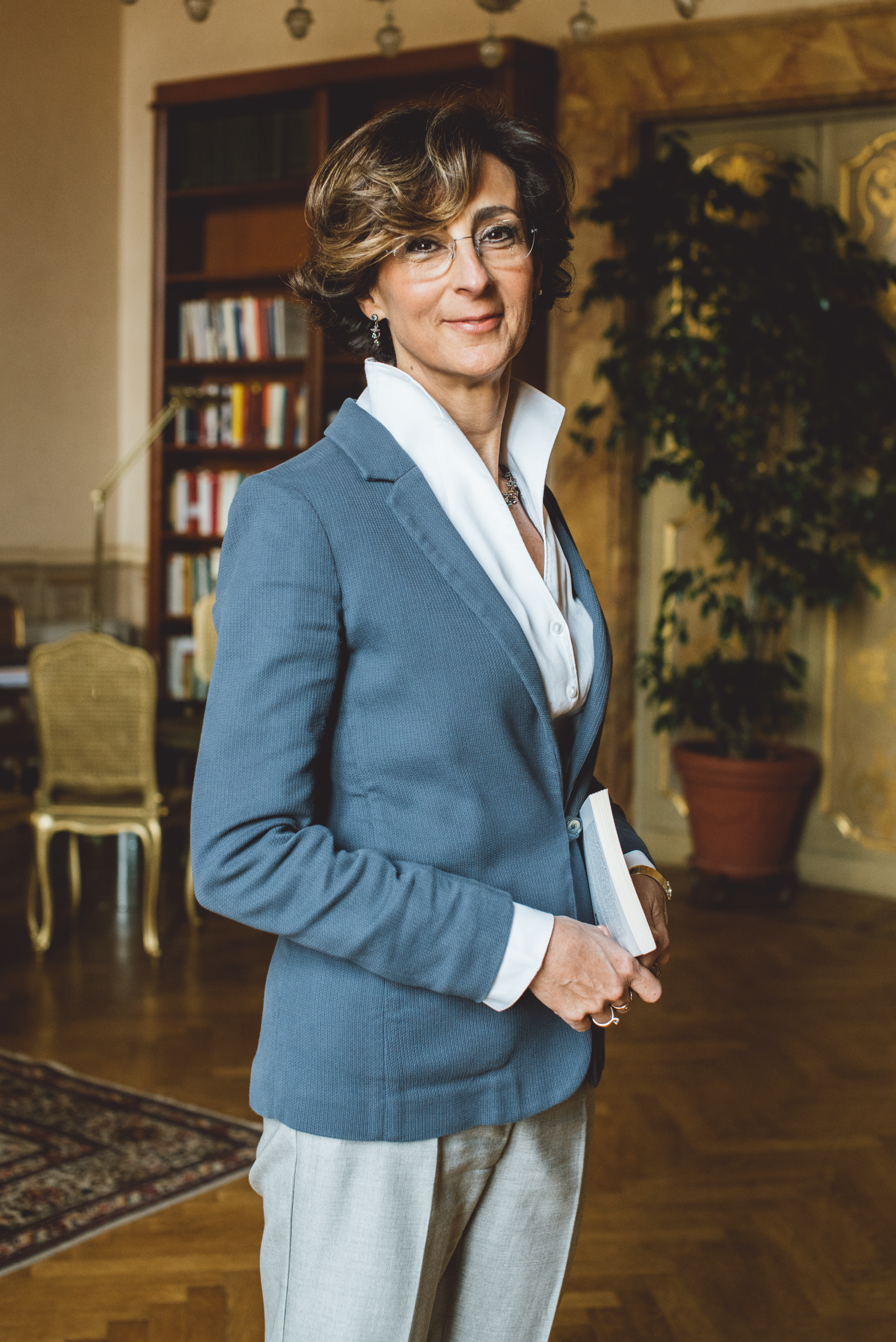 Marta Cartabia